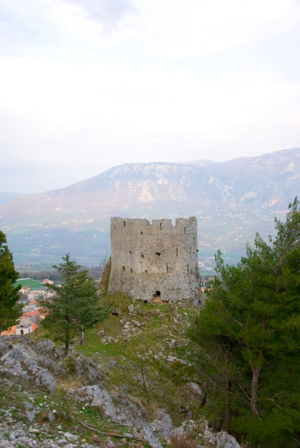 Longobard castle of Senerchia